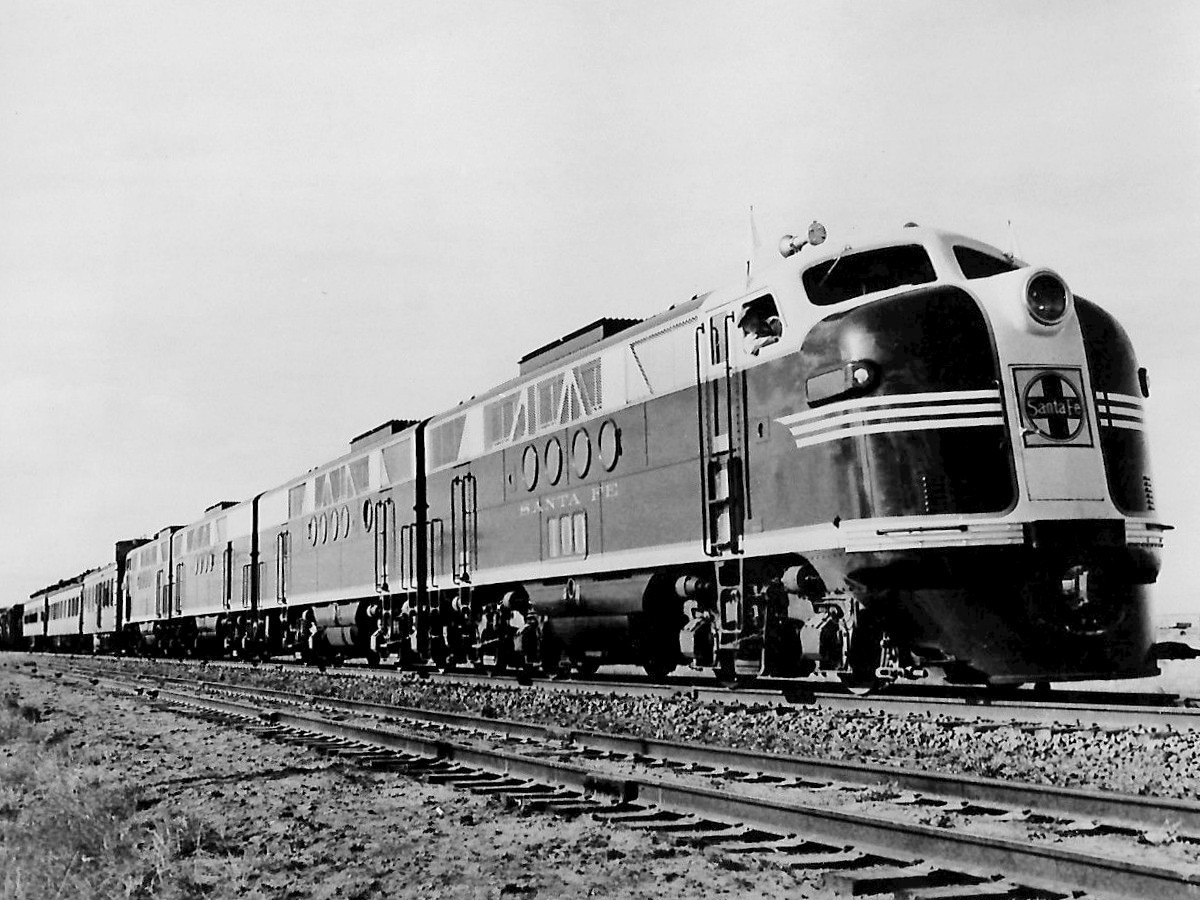 Photo of a Santa Fe EMD FT locomotive which was said to be the world's first freight diesel locomotive.